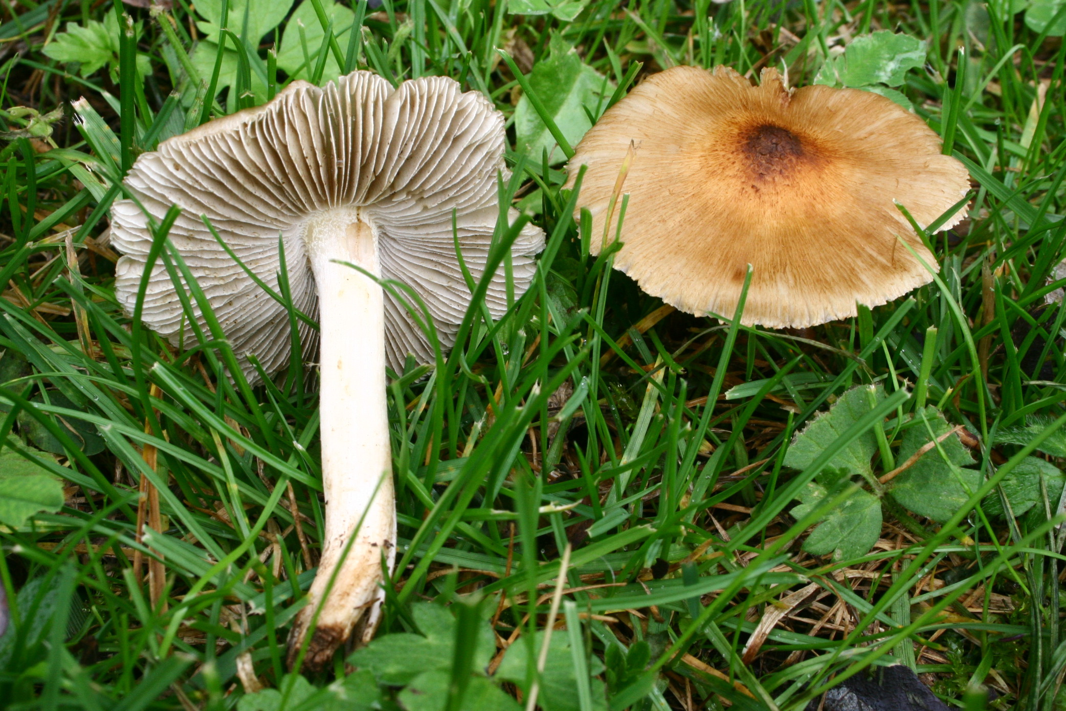 Inocybe squamata in a park near Massy, France.